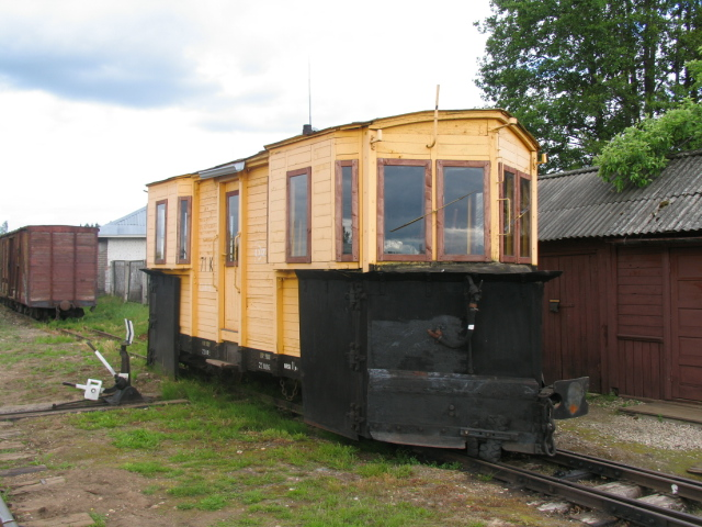 Snowplough with wooden cabin of Bānītis, Latvia